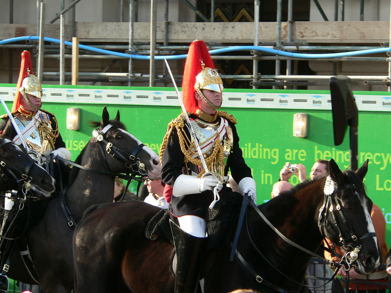 Lord Mayor's Show 2005